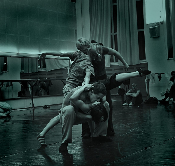 The rehearsal of the "Underground" performance by choreographer Radu Poklitary in Kiev Modern Ballet theatre